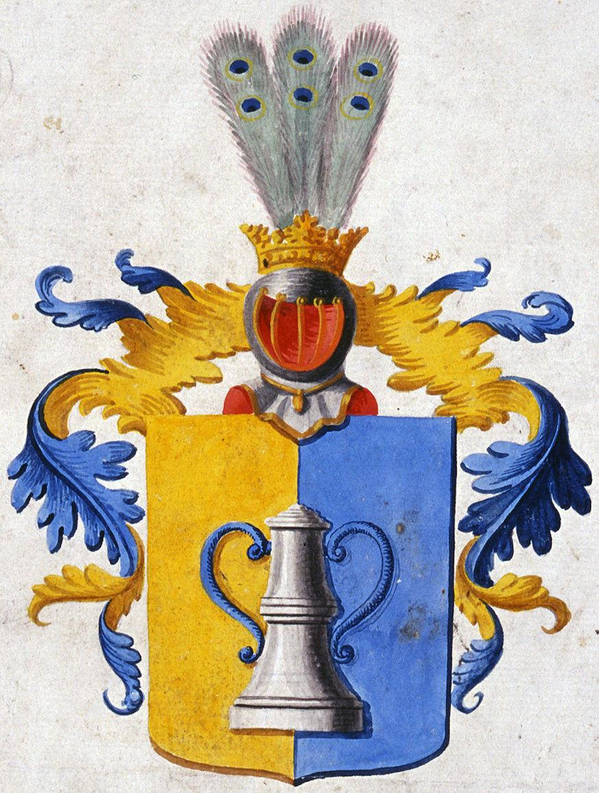 Swedish, Baltic and Russian noble COA Knorring